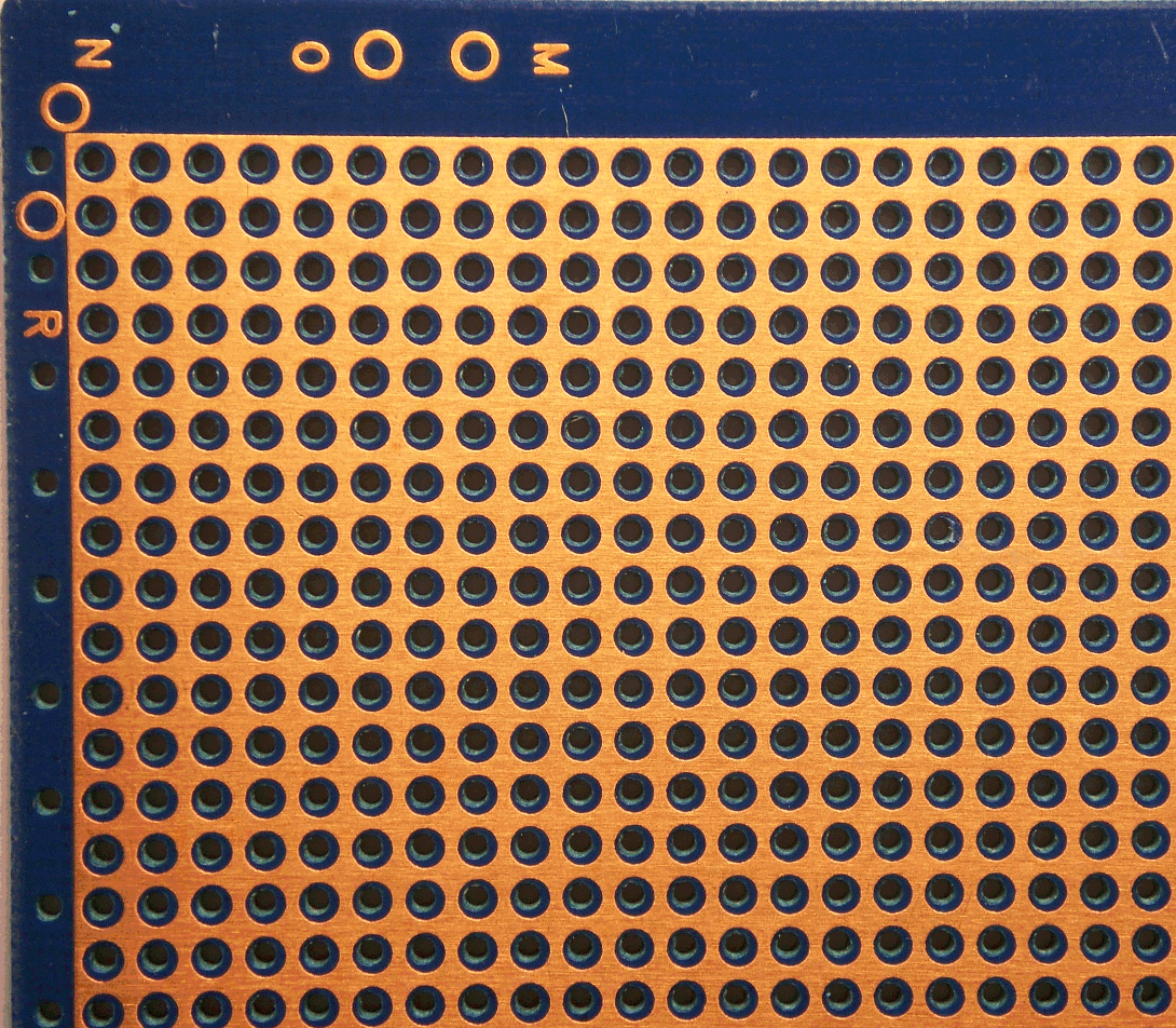 Back of an empty copper clad perforated board with an RF substrate( Perfboard )